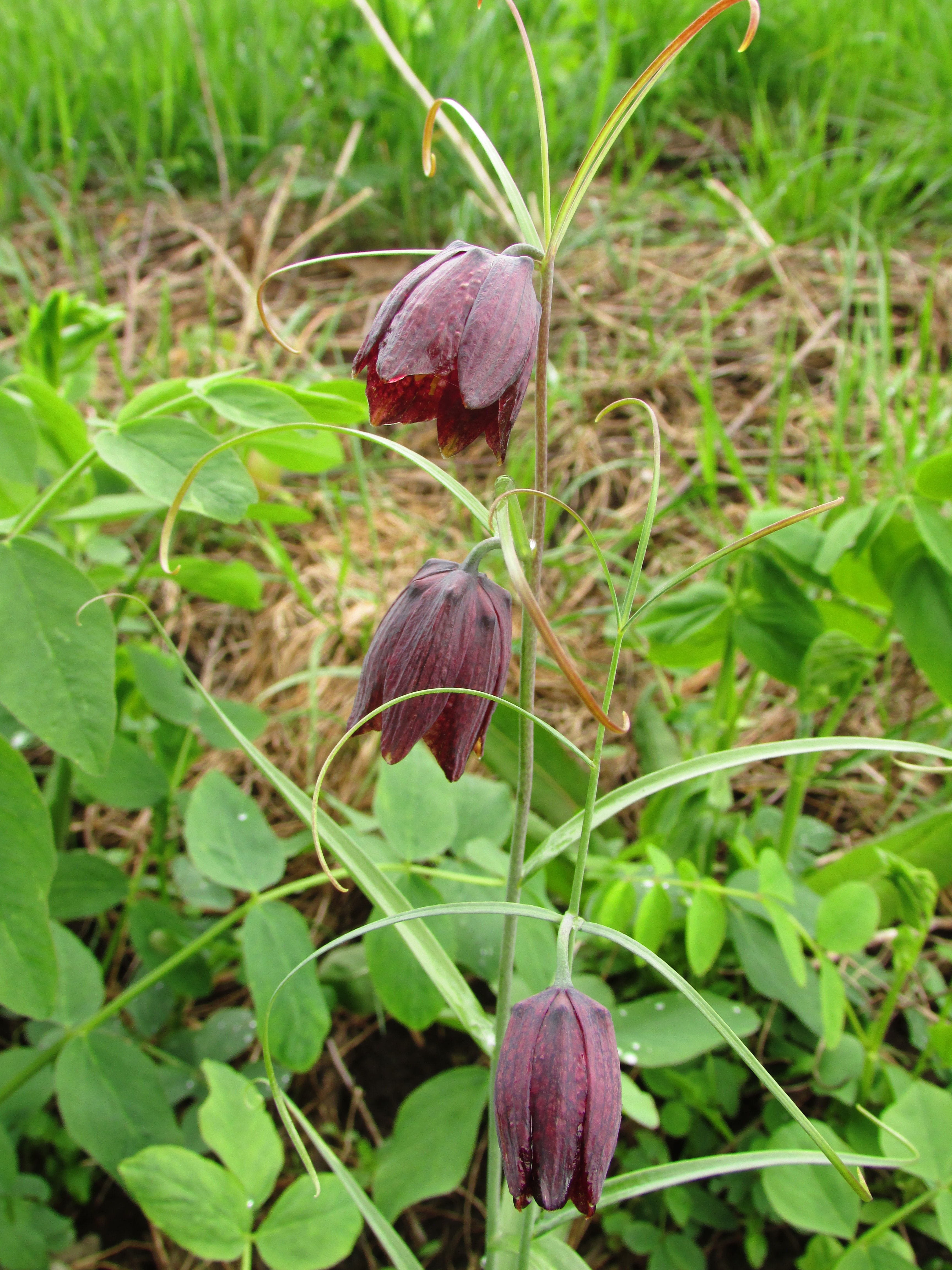 Fritillária ruthénica